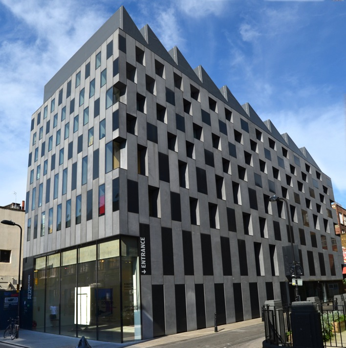 Photograph of the Rivington Place arts centre in London, England